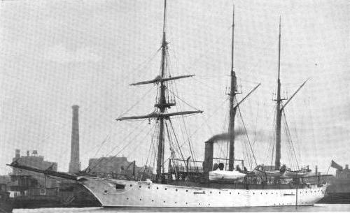 The USS Annapolis, an American gunboat built in 1896.